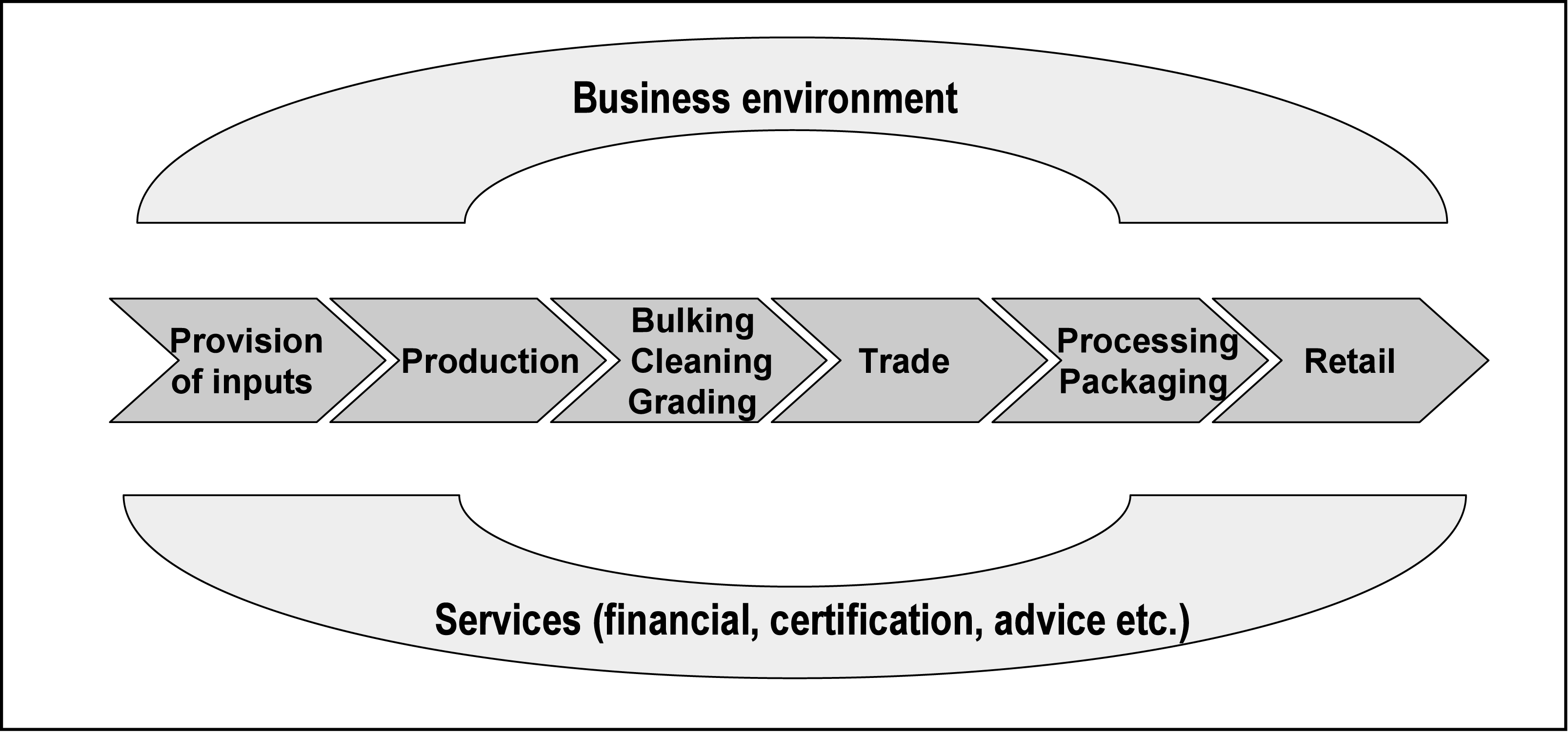 Figure 7: Typical value chain of agricultural commodities. Belongs to The Organic Business Guide.